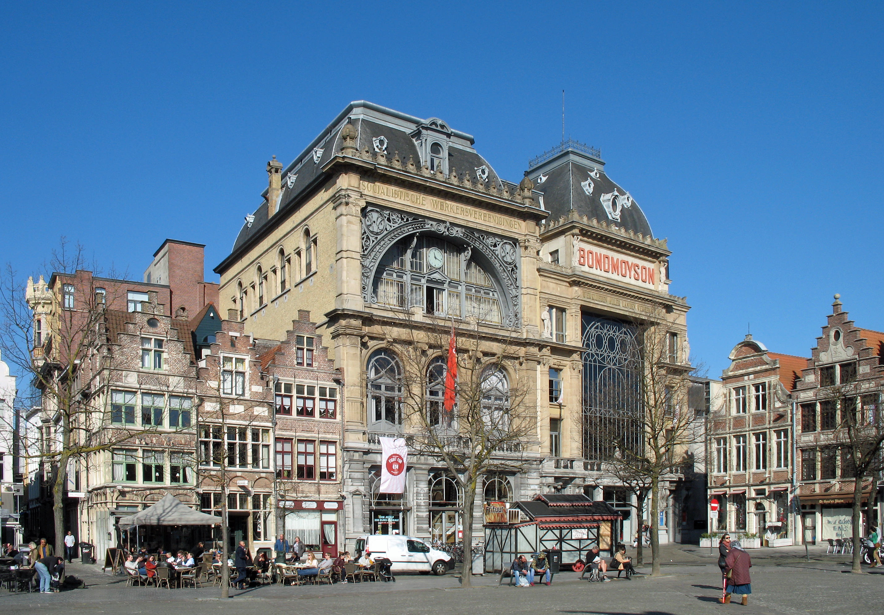 Ghent (Belgium), Vrijdagmarkt: the Volkshuis